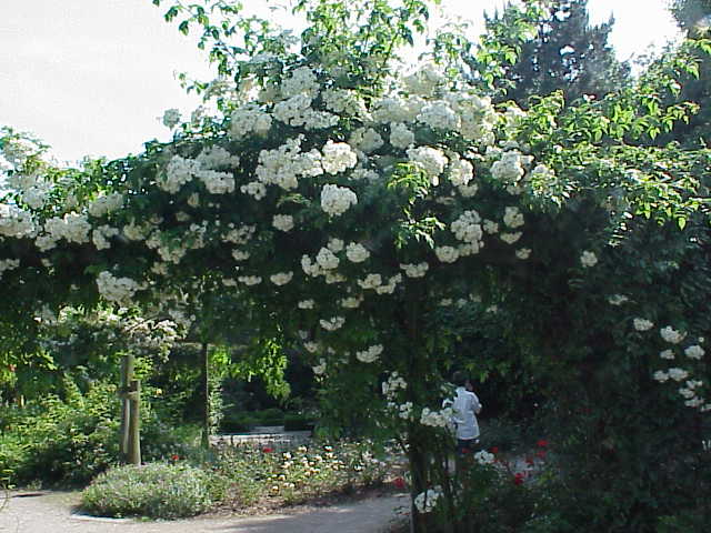 Species: Rosa sp. Family: Rosaceae Cultivar: Bobby James, Sunningdale 1961 Image No. 57